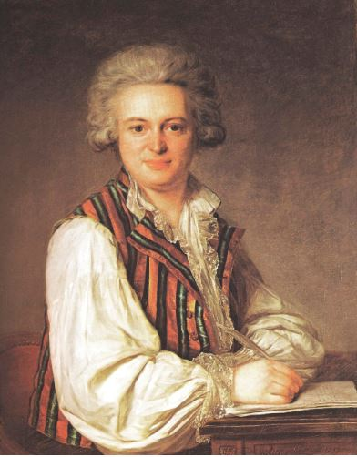 Portrait of Joseph Depestre by Antoine Vestier (1787)